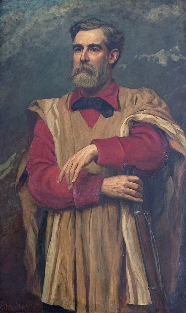 "George Earl Church (1835-1910)." Image courtesy of the Brown University Portrait Collection, Brown University, Providence, R.I.